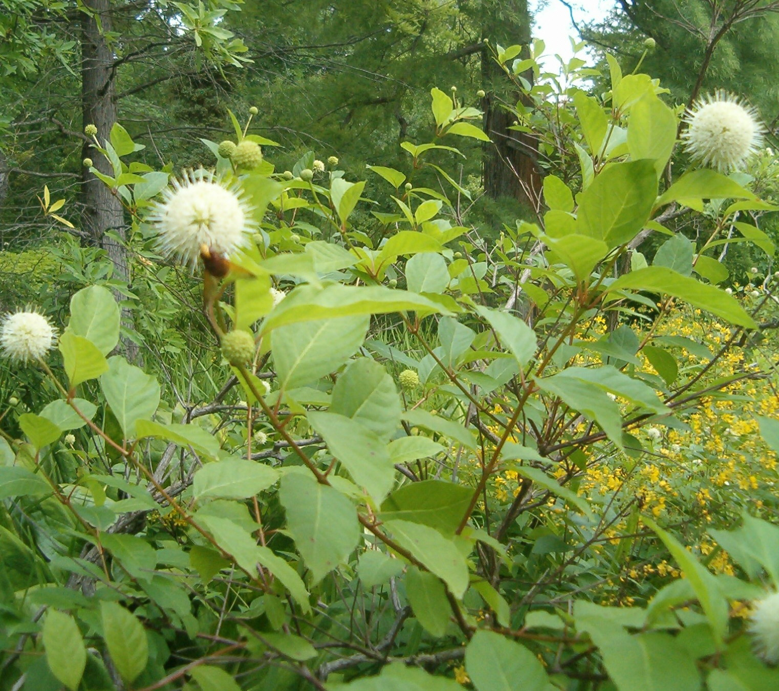 At Botanical Gardens Berlin-Dahlem Species Cephalanthus occidentalis